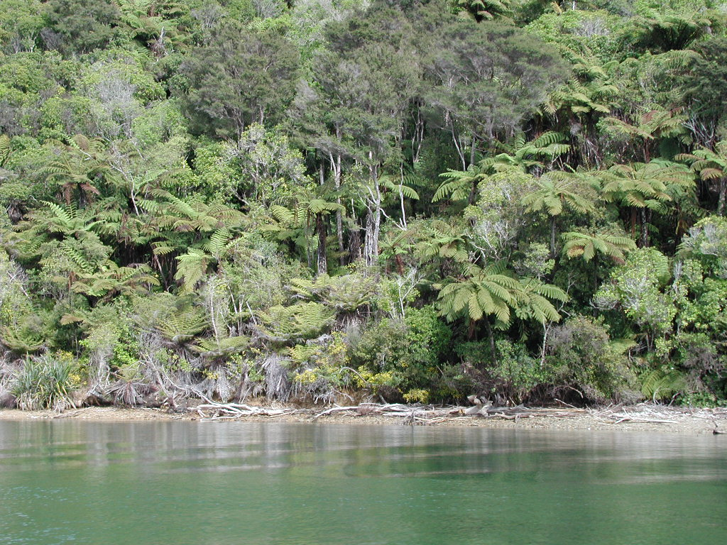 Shore in Mahau Sound covered with native bush, tree ferns - Mahau Sound is a small arm off Kenepuru Sound.